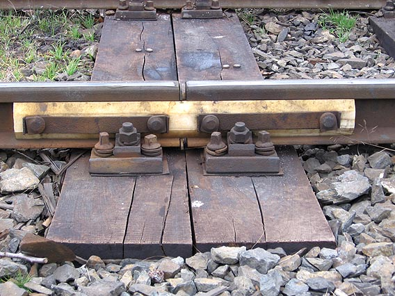 insulated rail joint with plastic strap plates